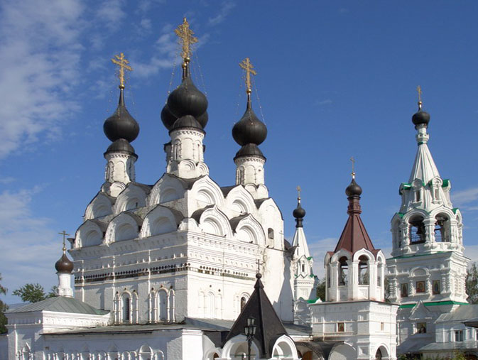 Trinity cathedral in Murom.